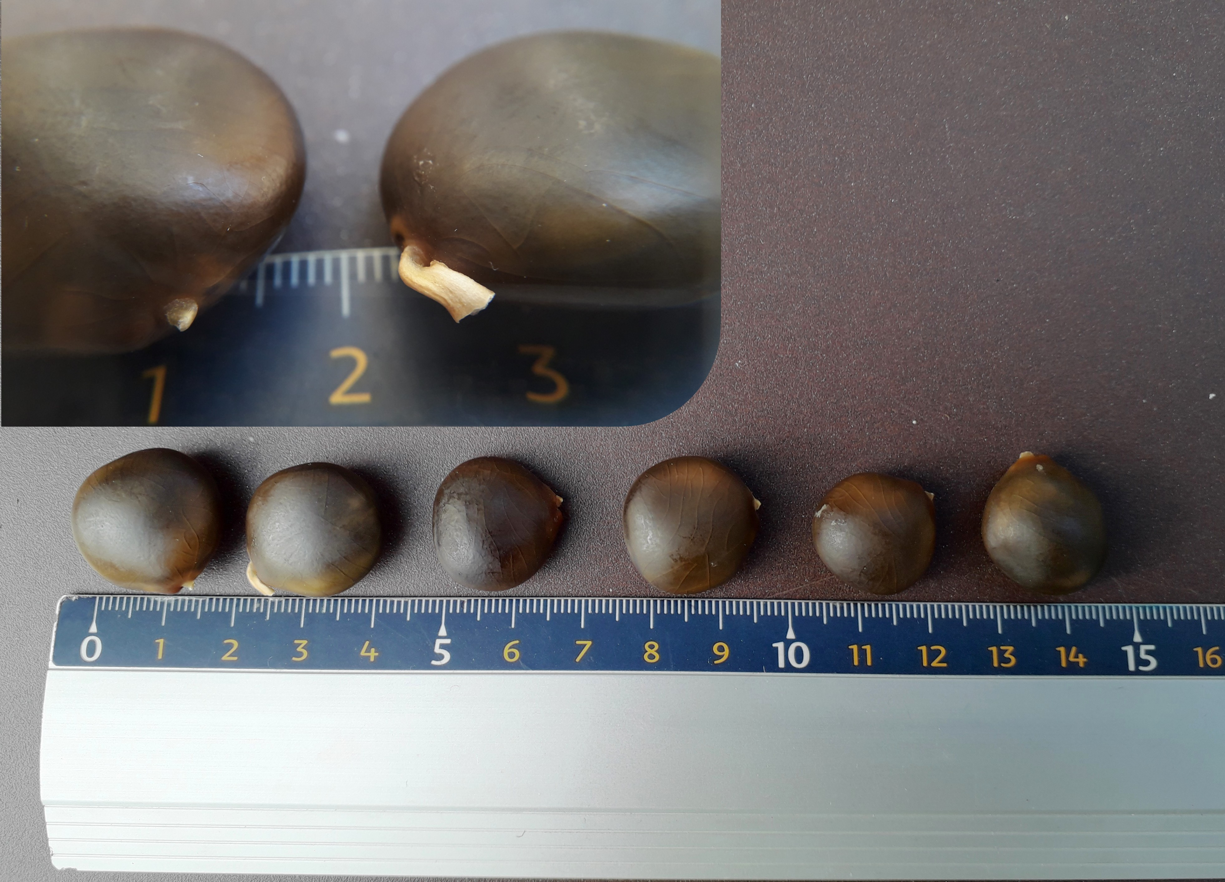 Kentucky coffee tree (Gymnocladus dioicus) seeds with an inset showing two seeds, one of them featuring a long remainder of the funiculus. Exposure a little too high to show more features.